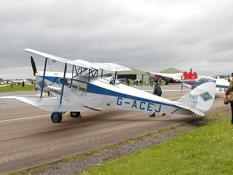 de Havilland DH.83 Fox Moth at the Great Vintage Fly-in Weekend, Kemble, England, May 2003.